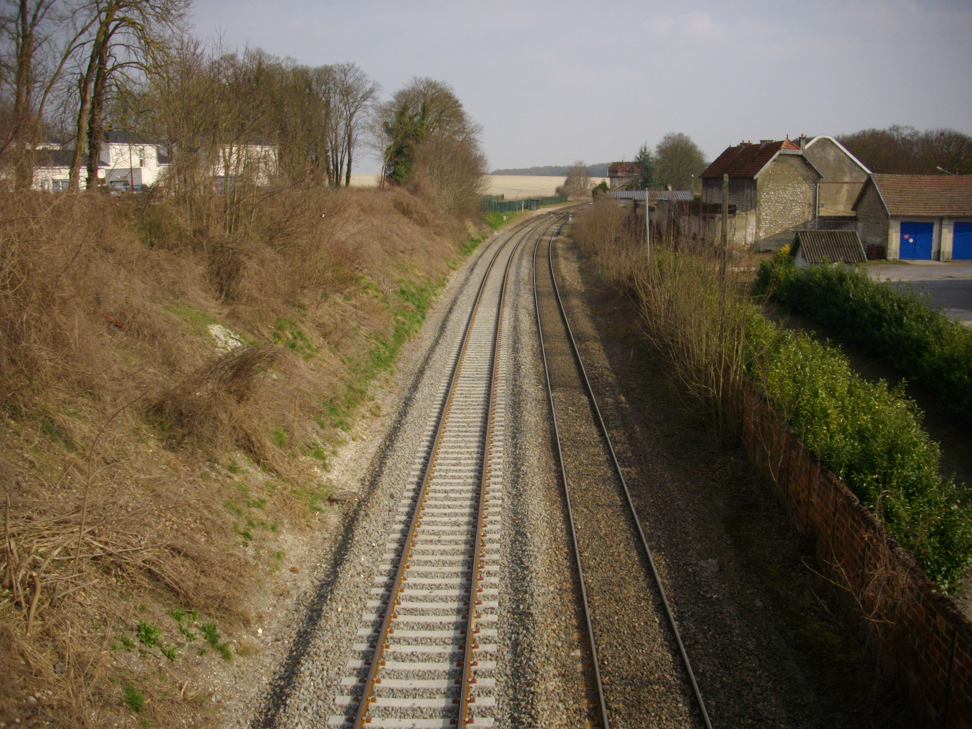 Reiums-Laon railway in La Verrerie, Courcy (Marne, France)